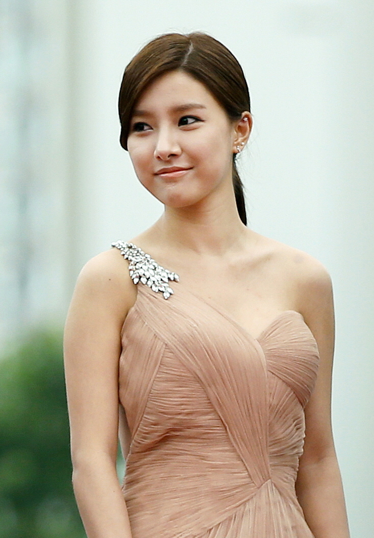 Actress Kim So-eun arrives at the red carpet event of the Pifan in Bucheon on July 17, 2014